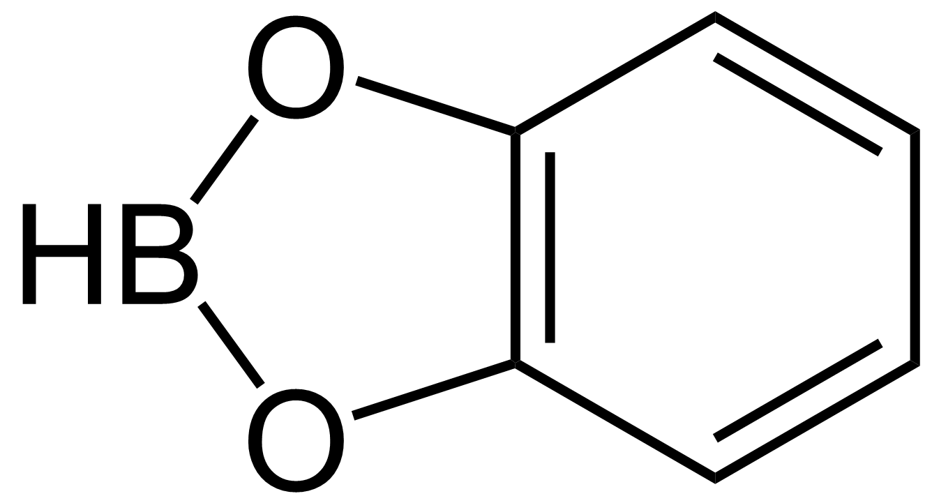 Catecholborane